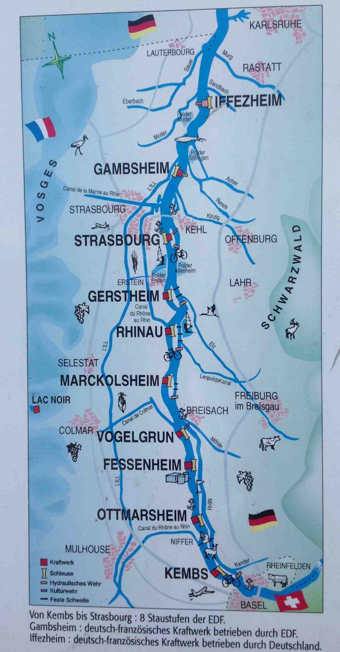 Map of sluices and hydropowerplants in Rhine between Kembs and Iffezheim. Seen at public noticeboard at Iffezheim. September 2012